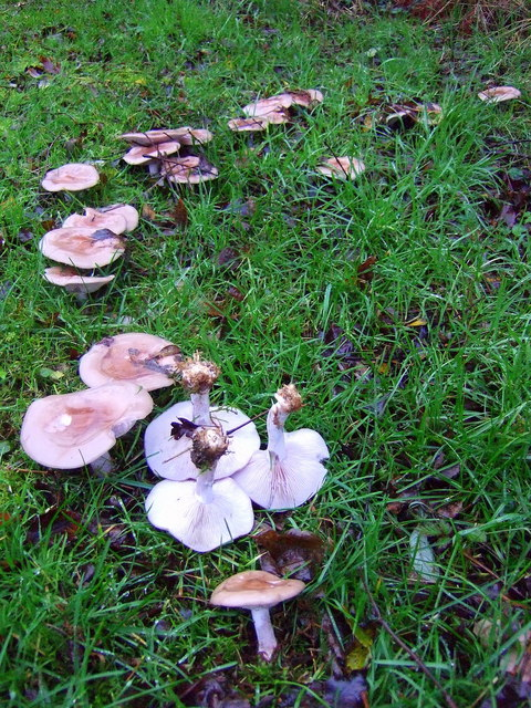 Field blewitts Blewits (the extra 't' is optional) come in two kinds: this one, Lepista saeva, grows on open grassland, often along field or road edges, while Lepista nuda, the wood blewit, grows under trees. They are very distinctive by reason of their purplish/lilac colouration when young (these specimens are quite pale) and also from the fact that they appear late in the year. They are good to eat, although they disagree with some people especially in conjunction with alcohol. They work well in casseroles and are popular on the continent.